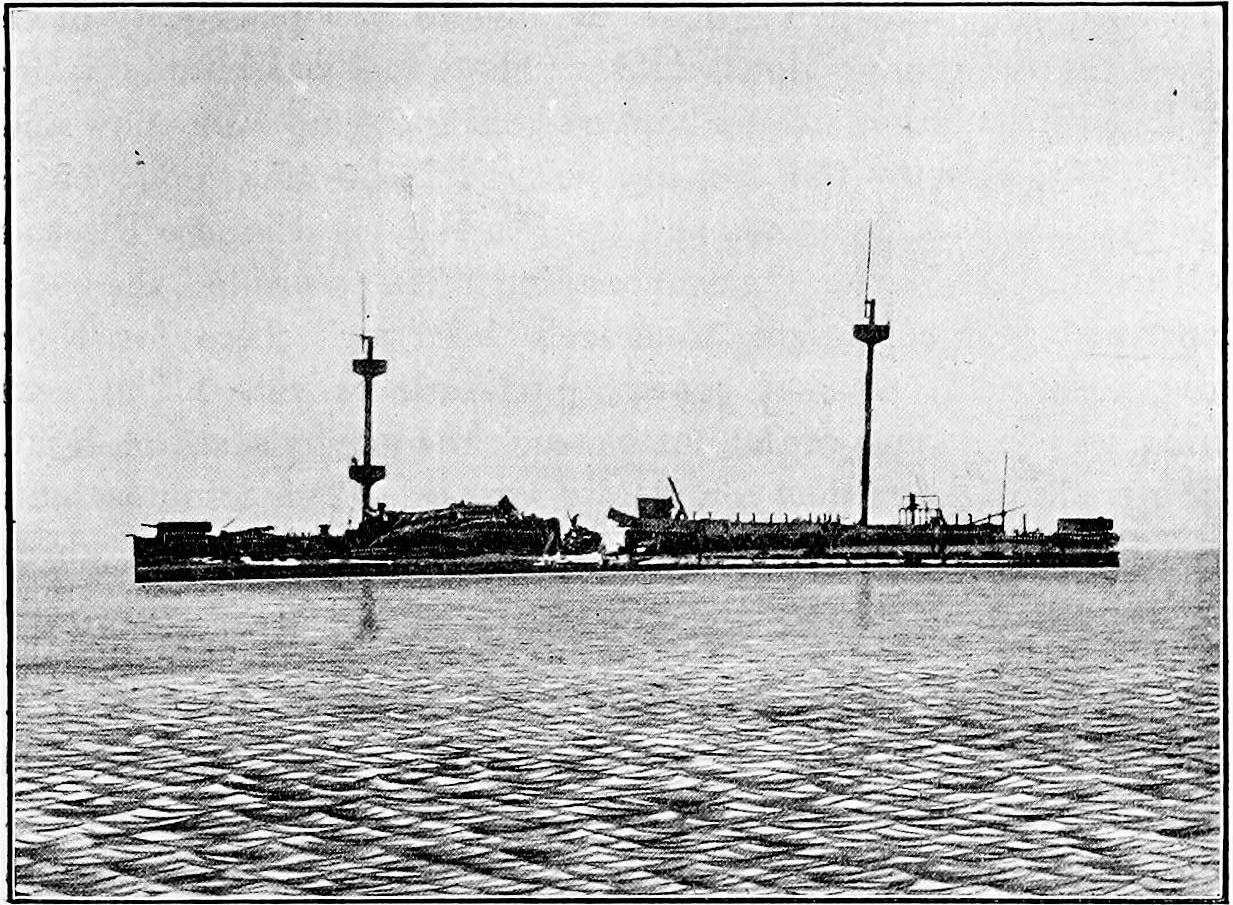 The TING YUEN after the torpedo-Boad attack; February 5 1895